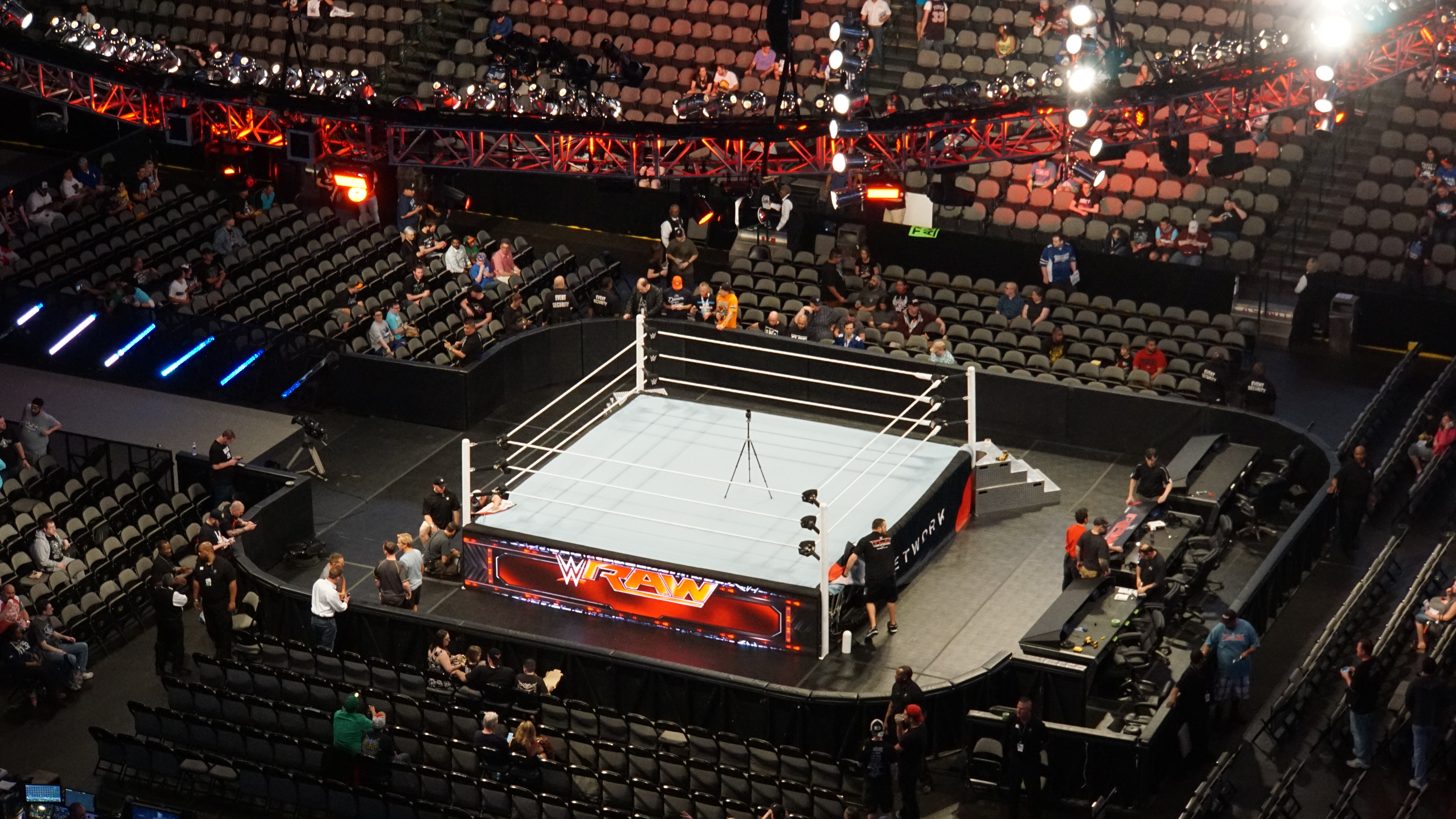 The raw after WrestleMania 32